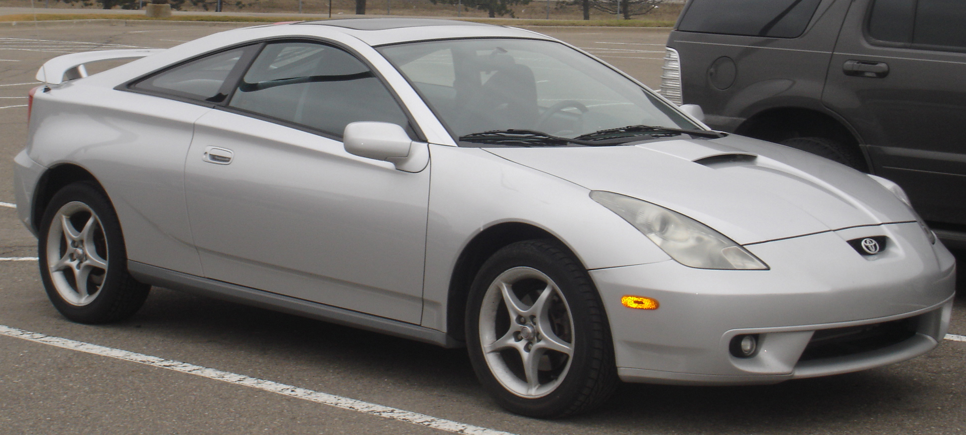 2001 Toyota Celica GT-S (ZZT231) shown in Liquid Silver Metallic (colour code 1D0).